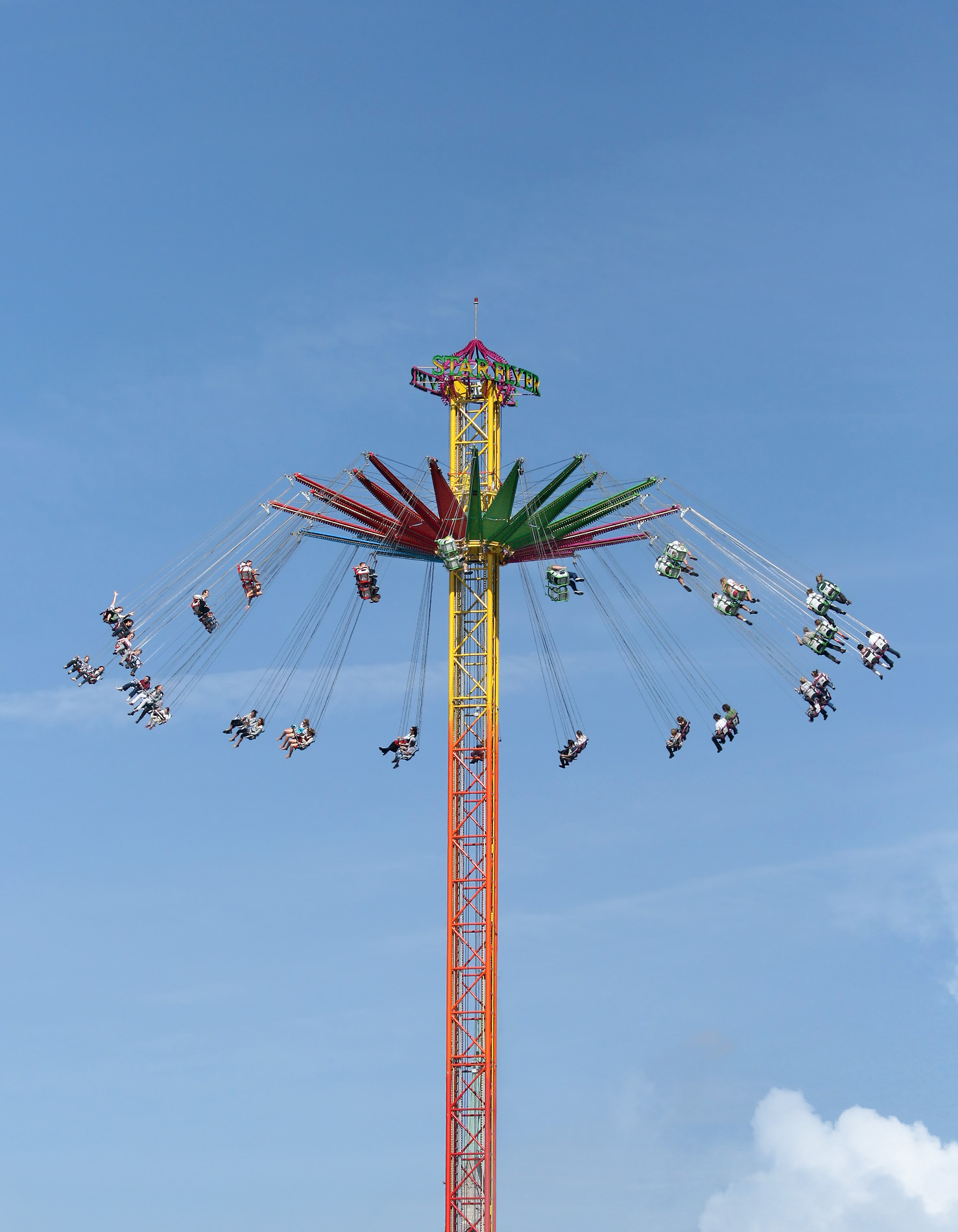 Description: The Oktoberfest is a two-week festival held each year in Munich, Bavaria, Germany during late September and early October. It is one of the most famous events in the city and the world's largest fair, with some six million people attending every year.